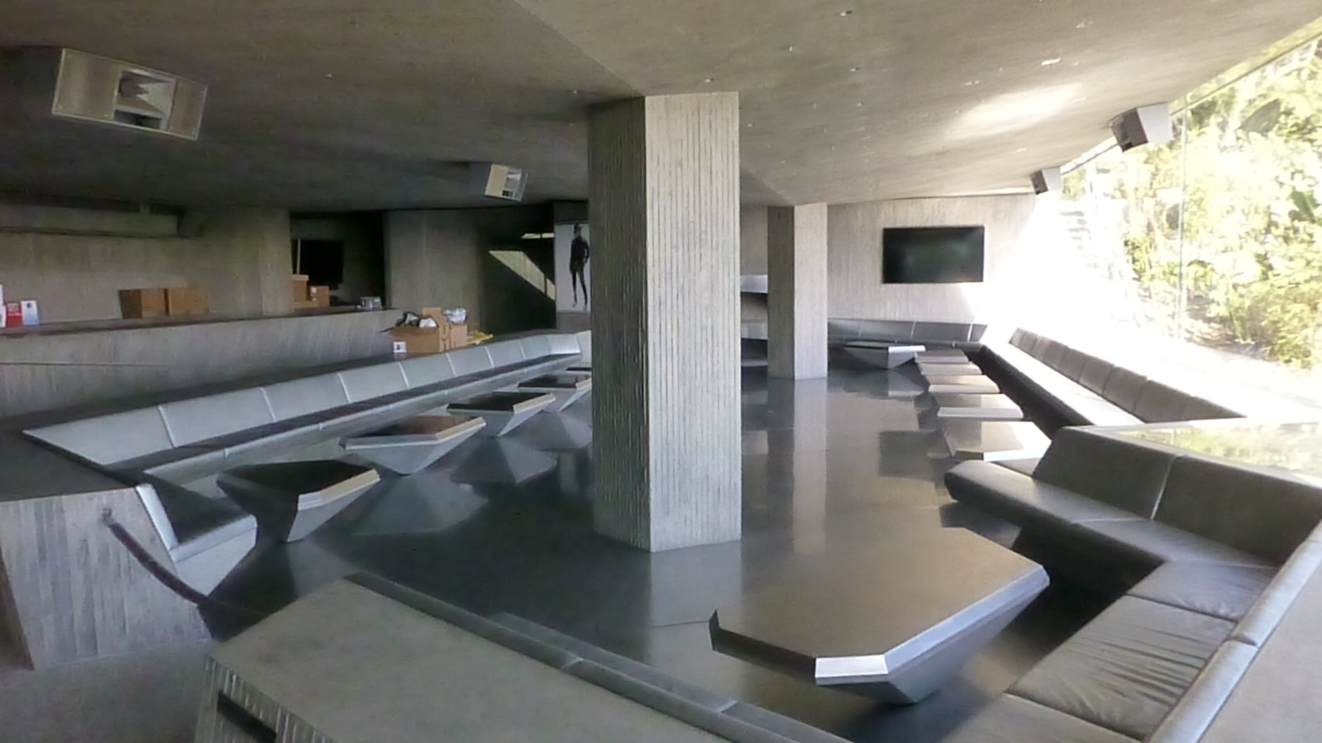 Club James, Sheats-Goldstein Residence, Los Angeles, California, United States.